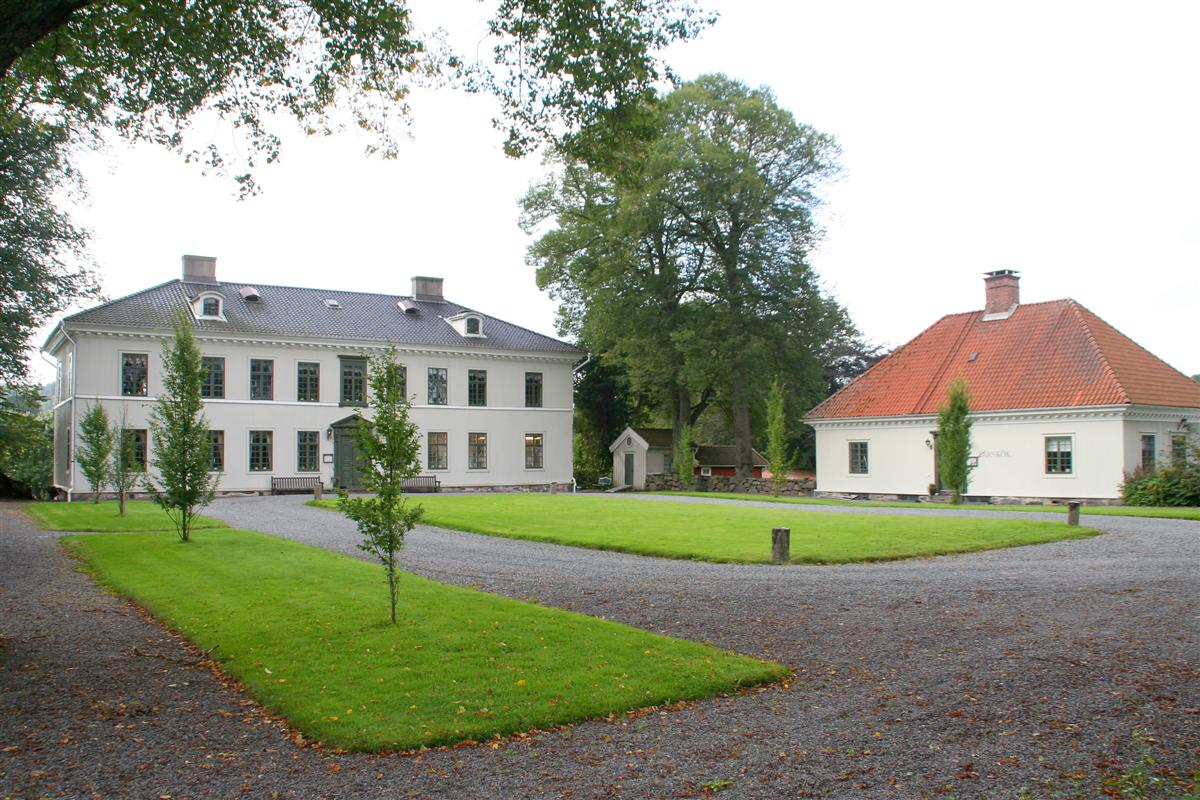 Råda Manor